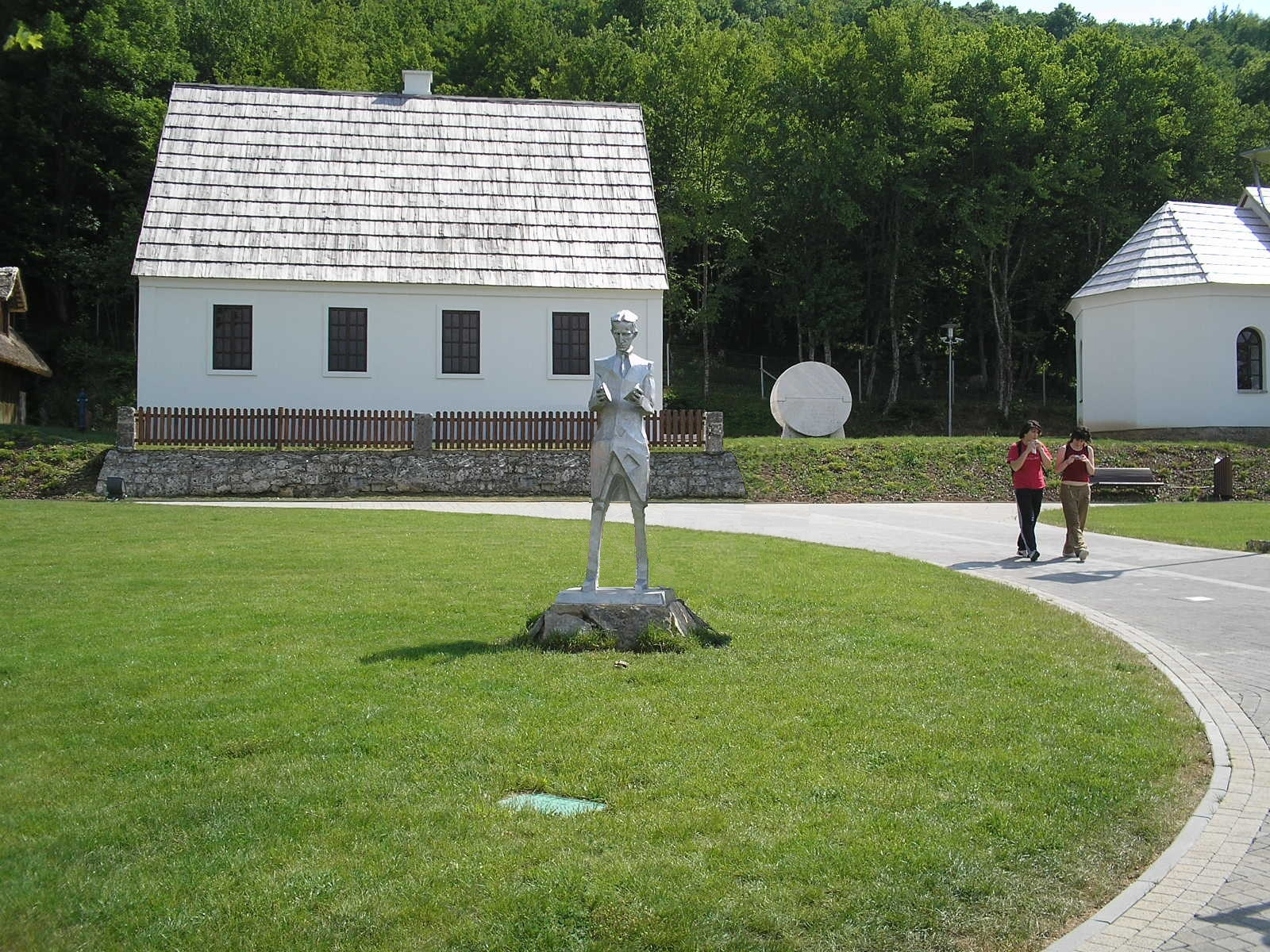 Nikola Tesla Memorial Center in Smiljan, Croatia